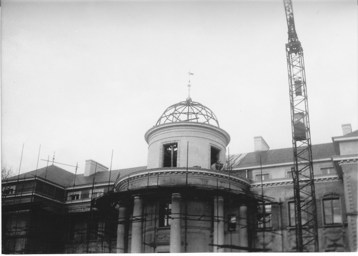 Architect Francis Bonaert restored the Castle of Duras, 1961